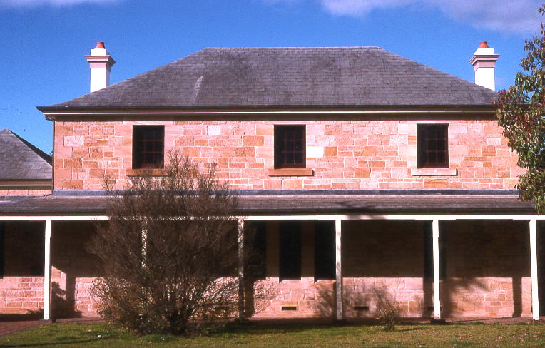 court house, australia